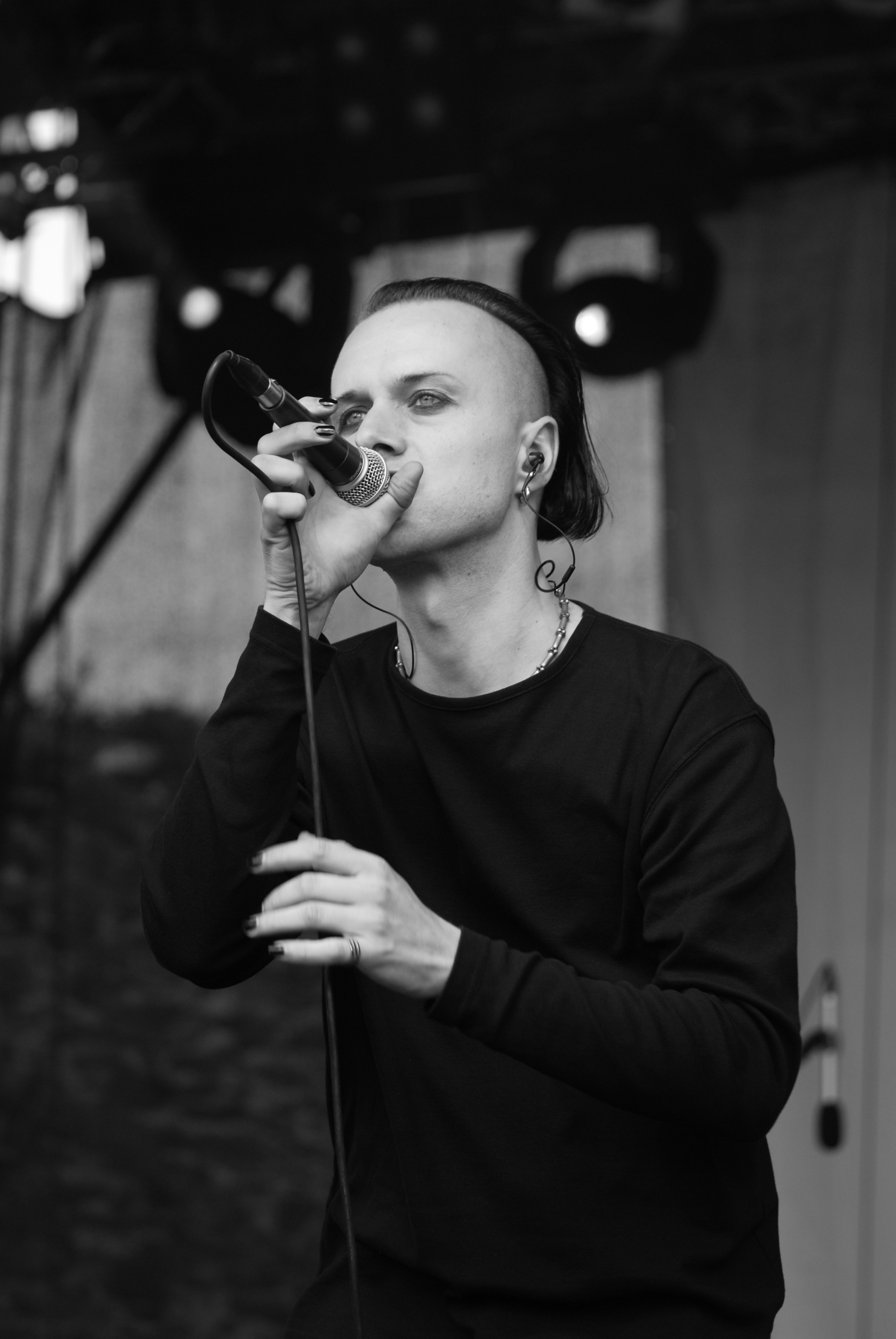 This photo was made in cooperation with CASTLE PARTY PRODUCTIONS in Bolków (webpage)